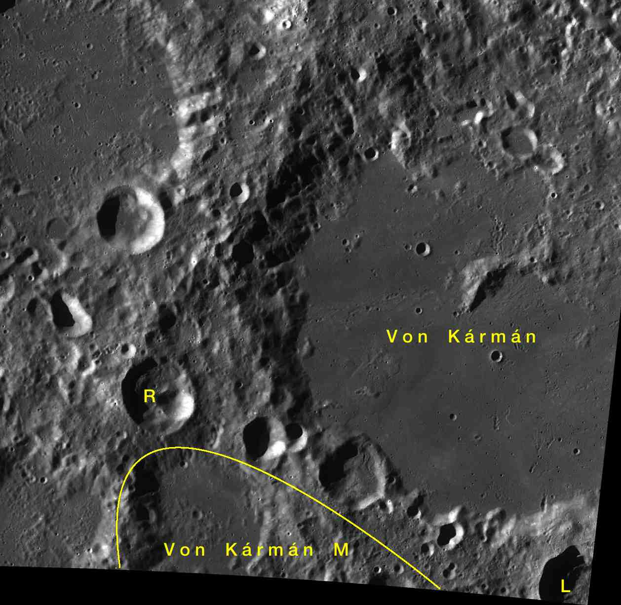 Part of the chart LAC-119 used for the presentation